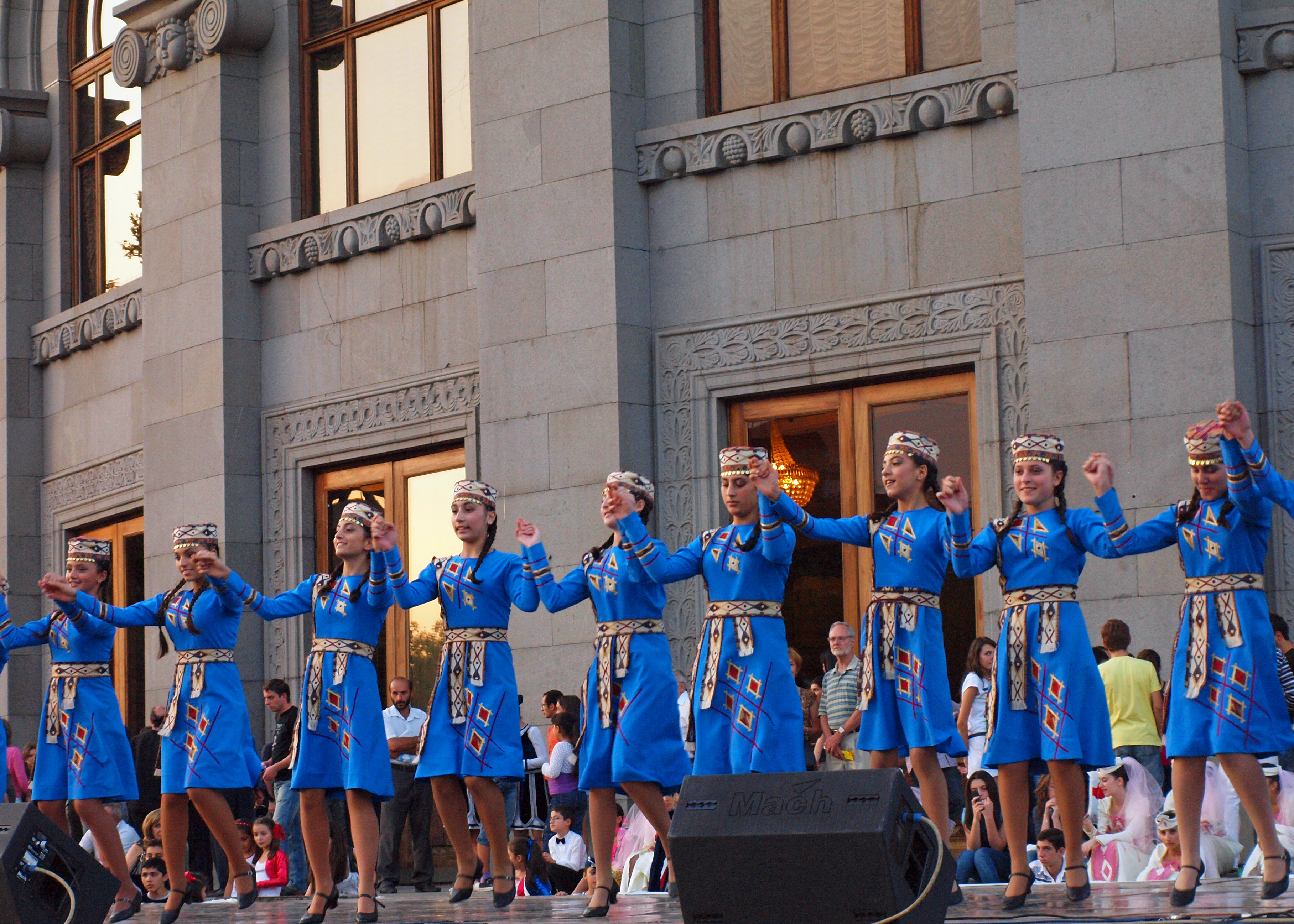 Dancing in front of the Opera House